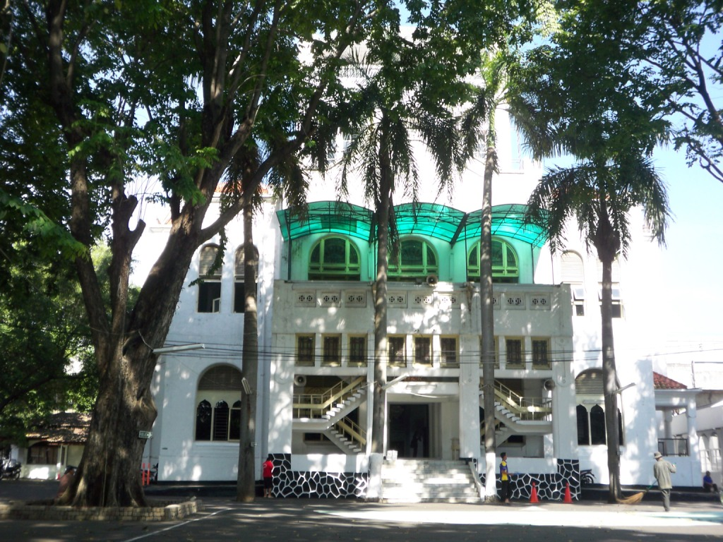 This is the front view of Cut Mutiah Mosque located in Jl. Cikini Raya, Jakarta, Indonesia. This is mosque is unique and it's one of a kind on the world. The reason is because the building itself was not designed for a mosque, therefore, the kiblah direction (praying heading) is not aligned with the building itself. In fact, during the Dutch collonization, the building was an office of an Dutch Architects.